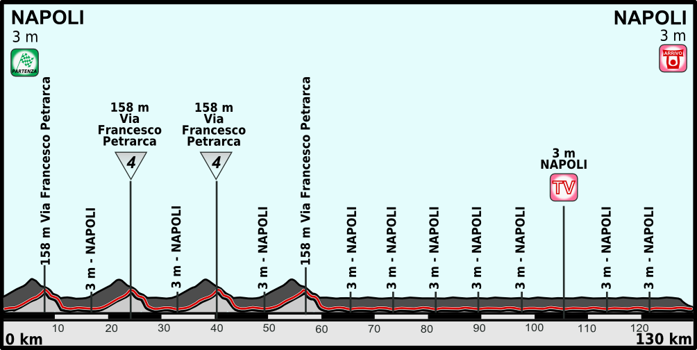 Giro d'Italia 2013 - stage profile # 01